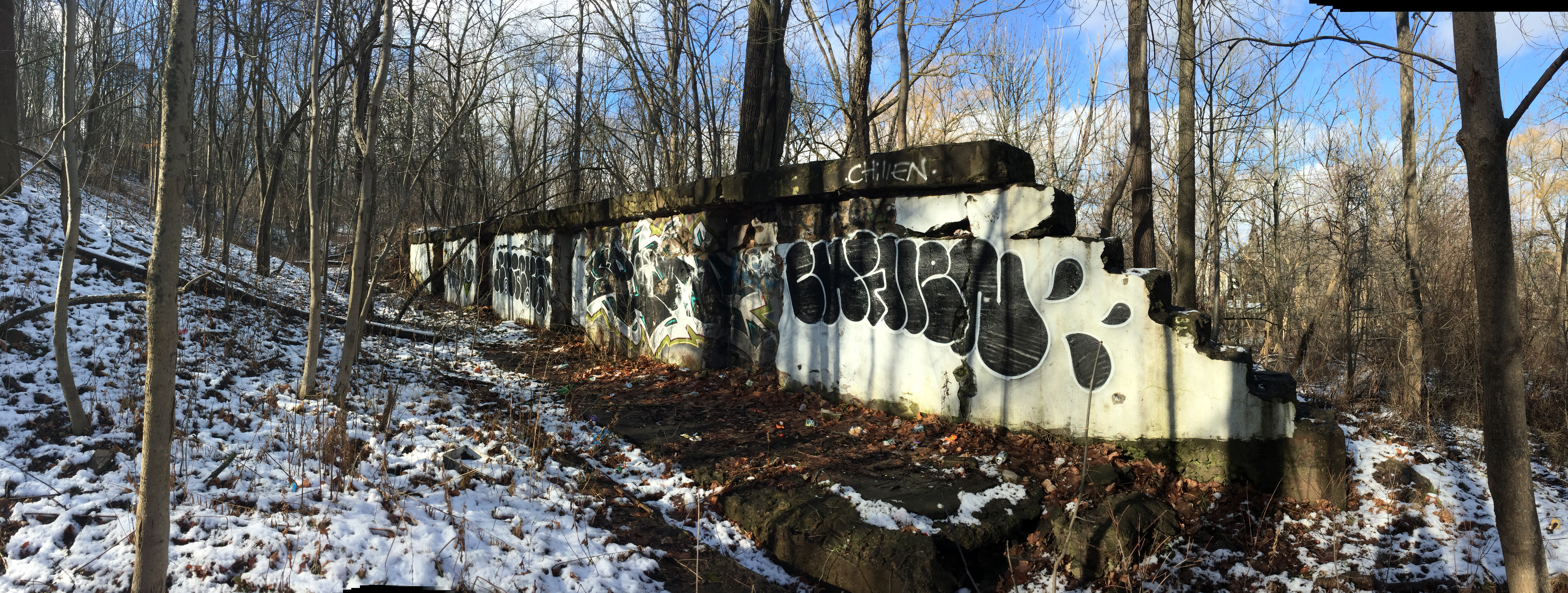 In the 19th and early 20th C a Hamilton, Ontario infantry regiment had a rifle range extending up the base of the escarpment in what is know called the Ainslie Wood neighbourhood. This wall formed the lower structure.